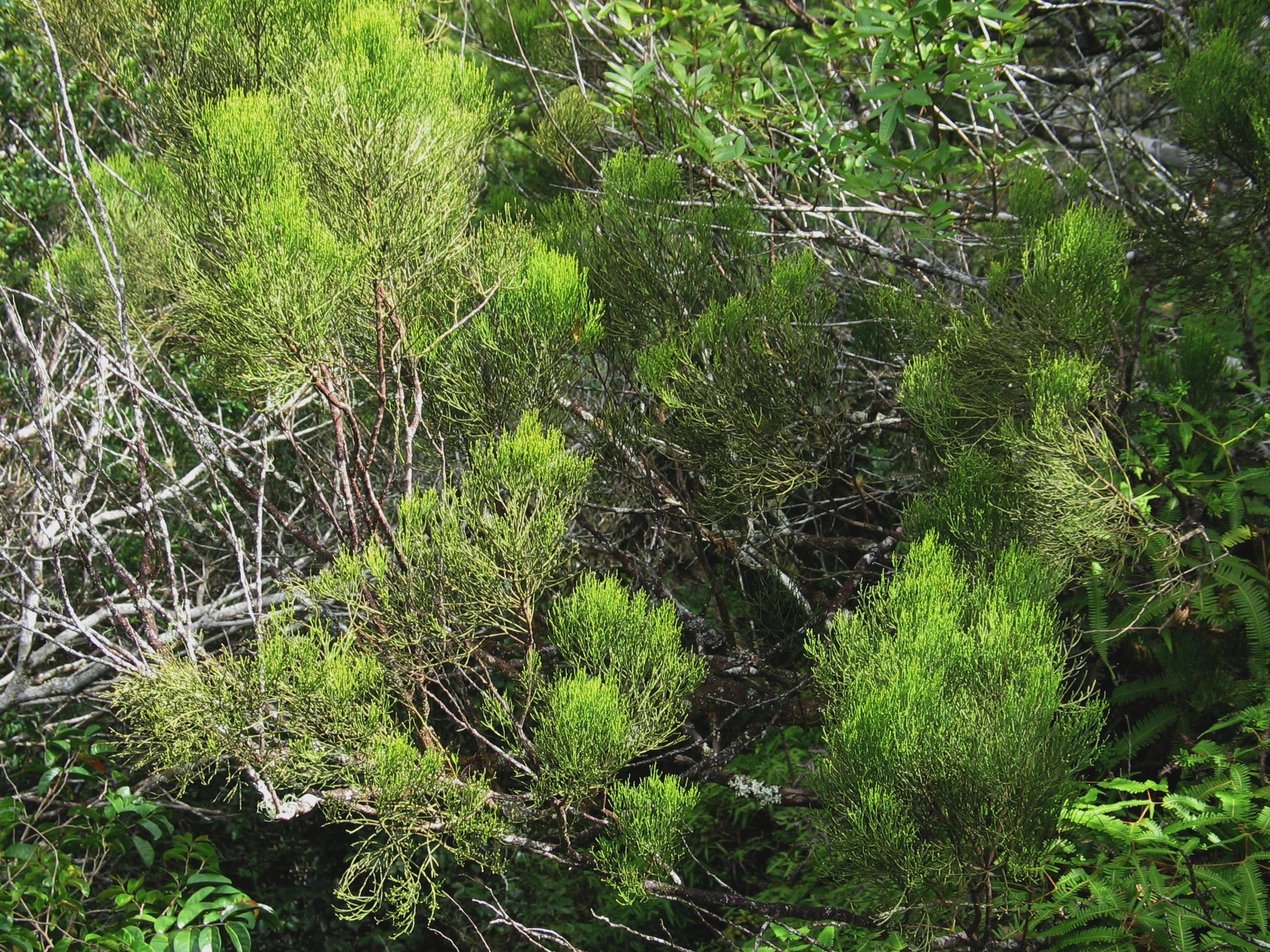 Heau or Gaudichaud's exocarpos Santalaceae Endemic to the Hawaiian Islands Endangered Palikea, Oʻahu